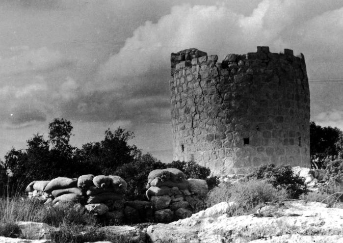 Position at Beit Shemesh fortified by Harel Brigade during Operation Ha-Har